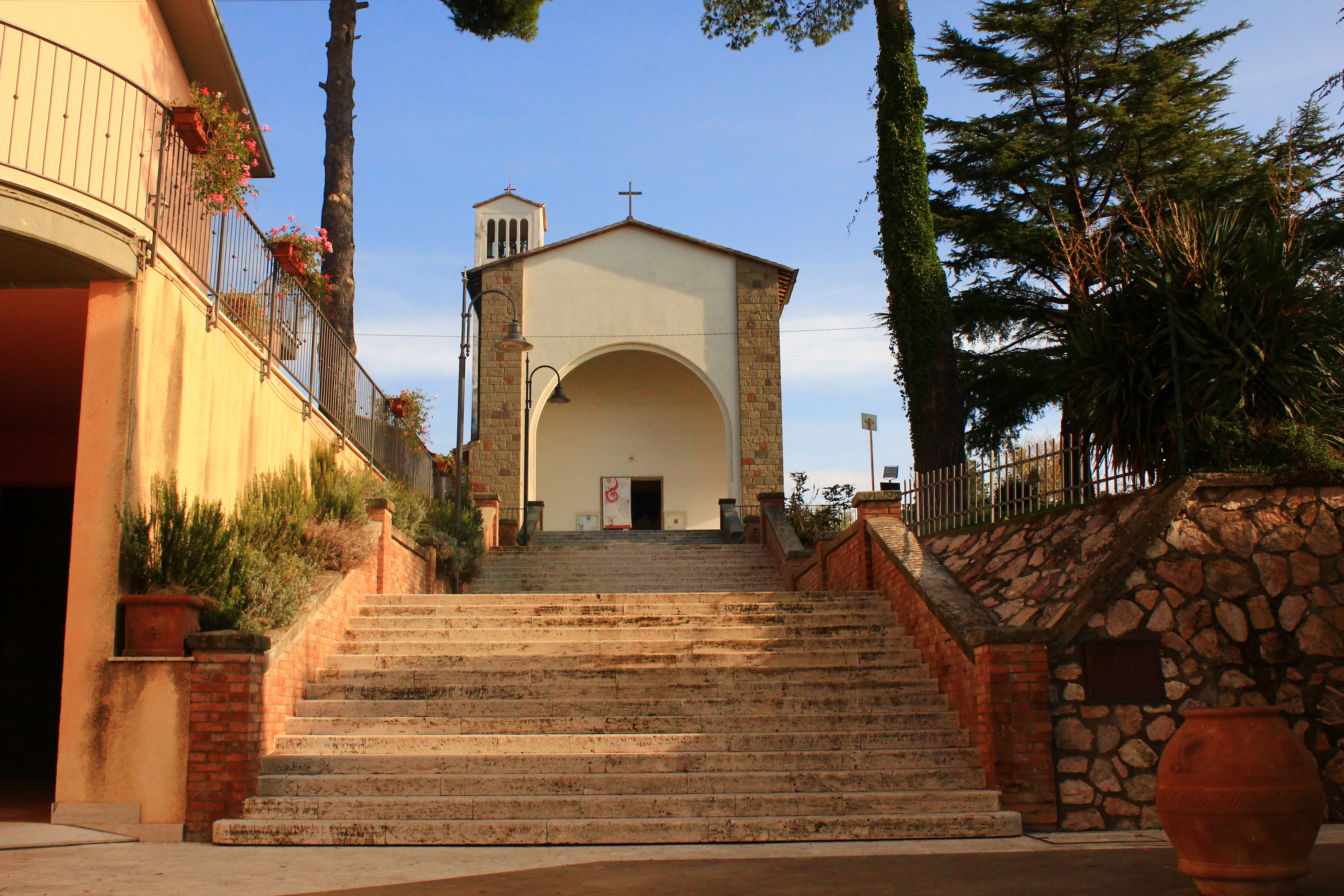 Church of Madonna di Lourdes in Arcille, Grosseto.